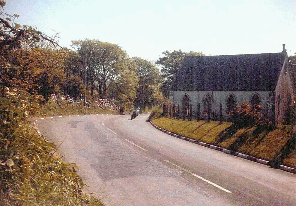 Barregarrow, Isle of Man, TT rider Mick Grant in 1985 on the descent adjacent to the chapel situated directly after Barregarrow crossroads